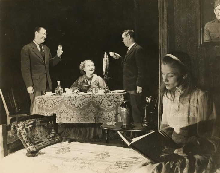 L. to R. : Anthony Ross, Laurette Taylor, Eddie Dowling & Julie Haydon in the Tennessee William's play The Glass Menagerie, Broadway - publicity still (cropped)